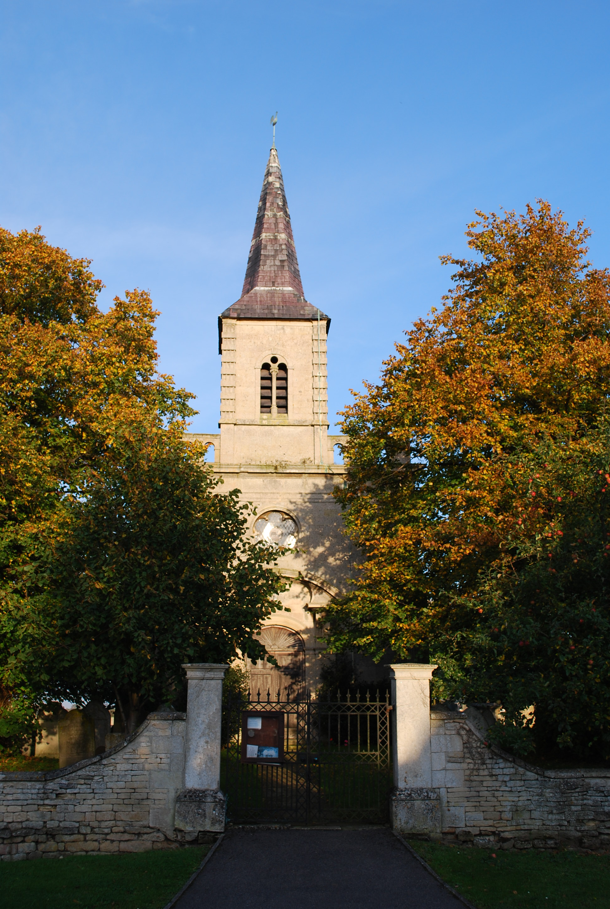 St Faith's church, Wilsthorpe, Lincolnshire, UK